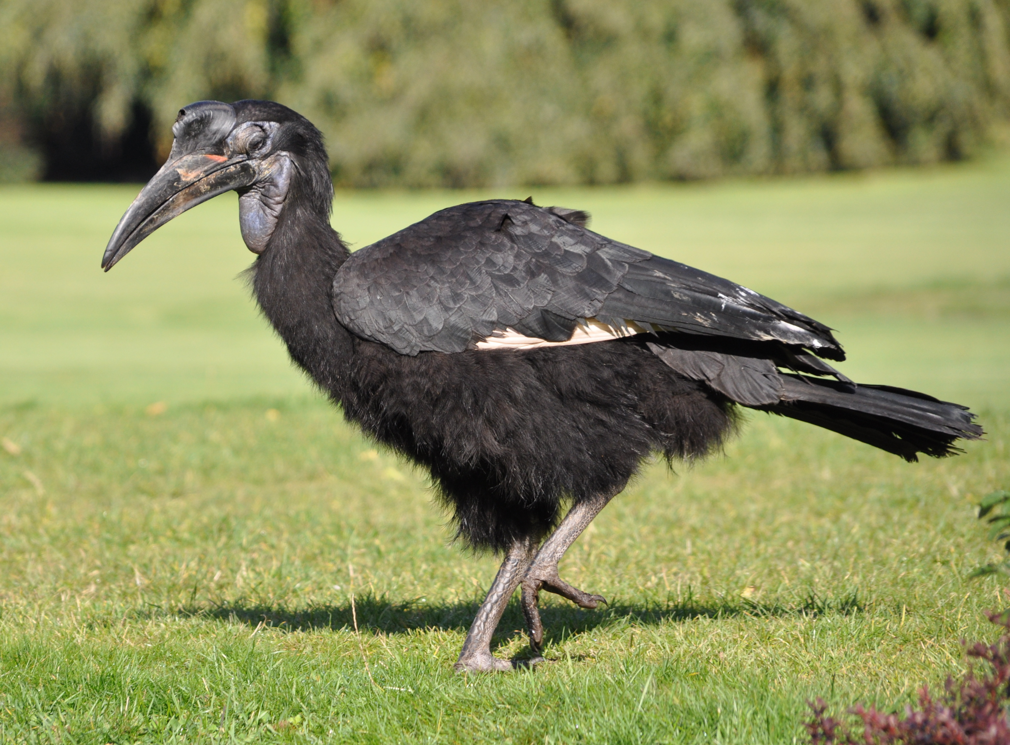 Abyssinian Ground-hornbill(Bucorvus abyssinicus) in the Walsrode Bird Park, Germany.